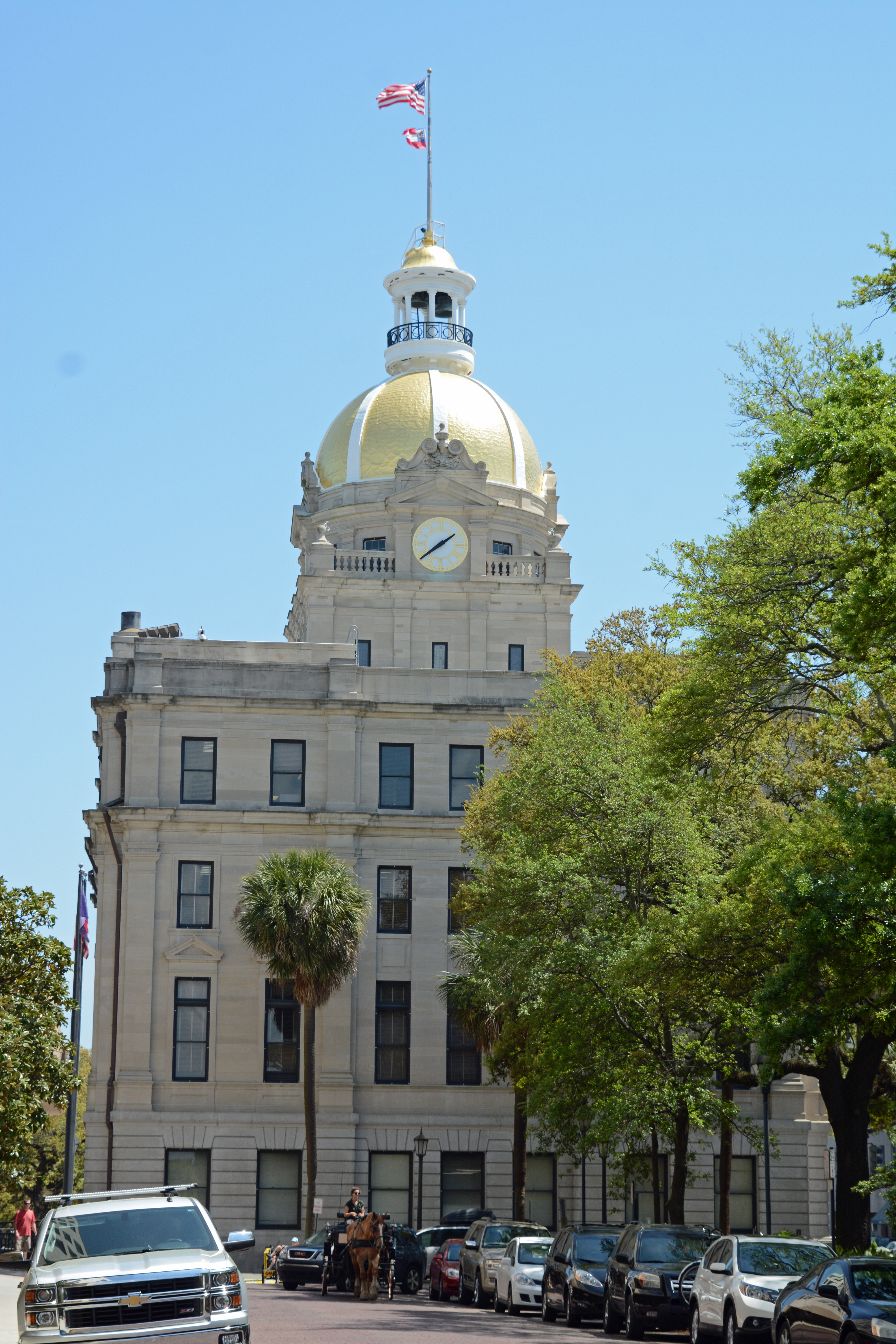 City Hall in Savannah, Georgia, US